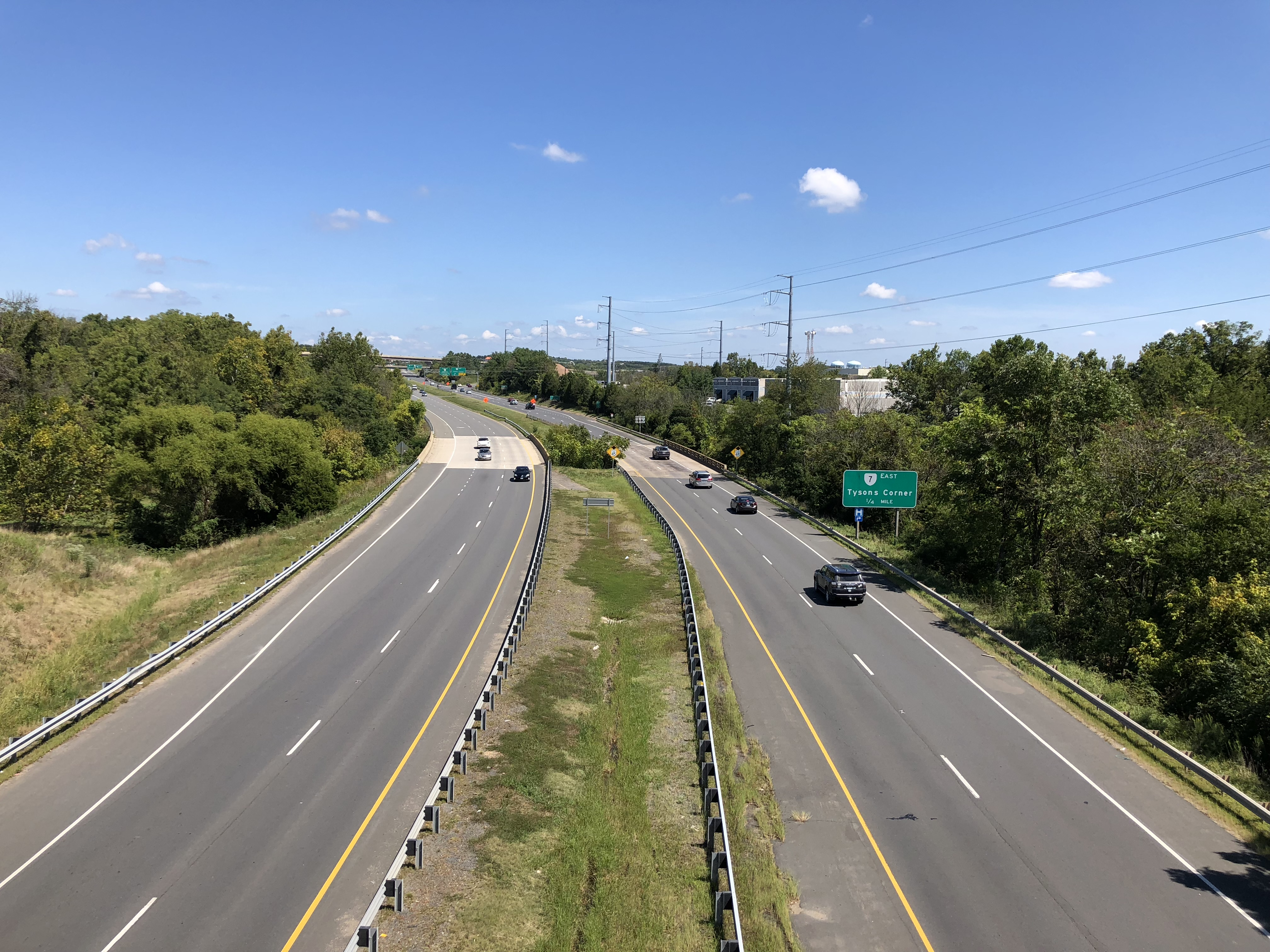 View north along U.S. Route 15 and east along Virginia State Route 7 (Leesburg Bypass) from the overpass for Sycolin Road Southeast in Leesburg, Loudoun County, Virginia